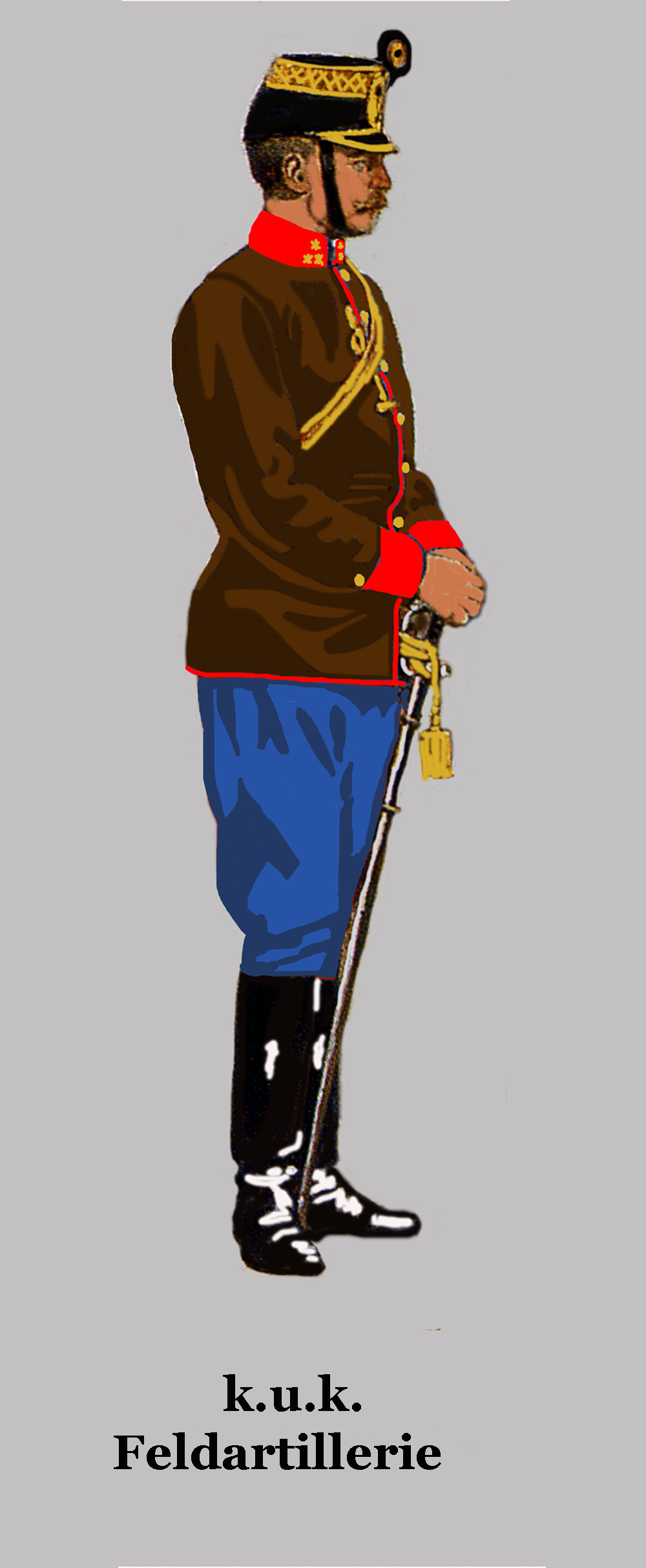 Captain of the Austro-Hungarian Field-Artillerie. Battle dress as worn until 1910